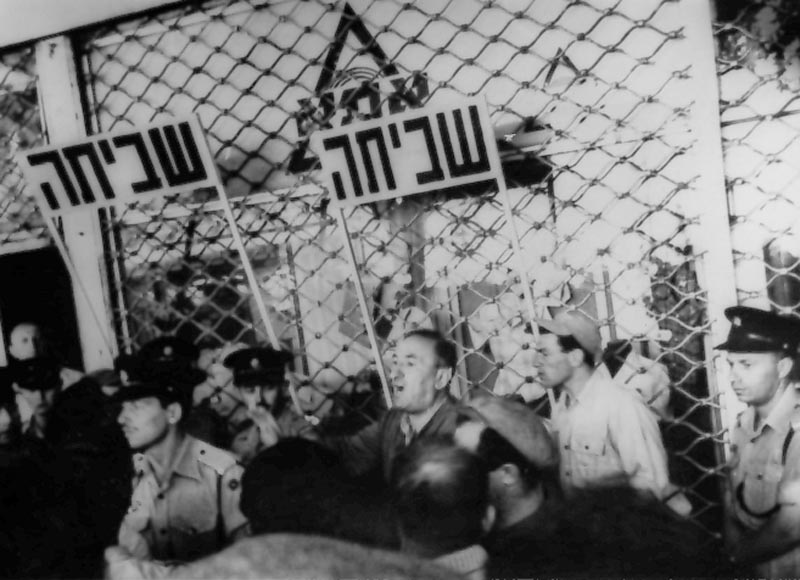 Econimy of Israel